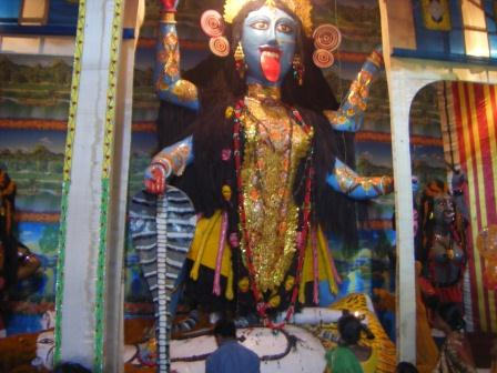 Barobisha Baro-kalithakur in Vivekananda club premises on the eve of Diwali taken in my fujifilm-Sudipto Ghosh